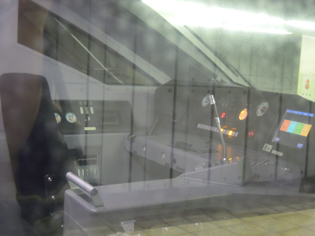 Keisei AE series(2009) Cockpit.